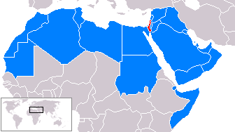 Arab League states and Israel map.